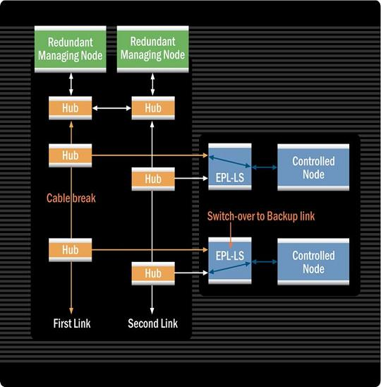 Managing node redundancy at Ethernet POWERLINK